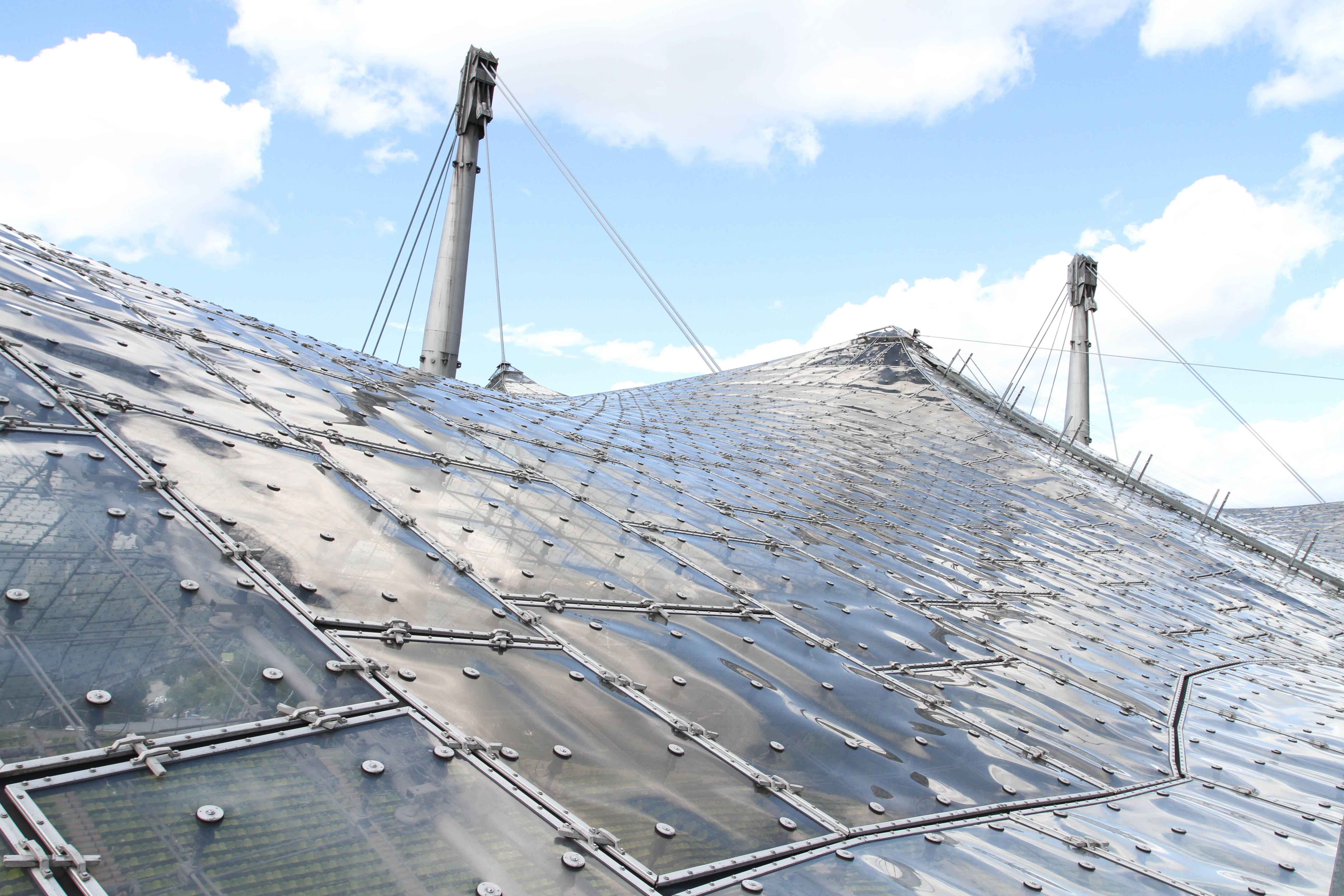 Olympic Parc Munich: Stadion tent roof